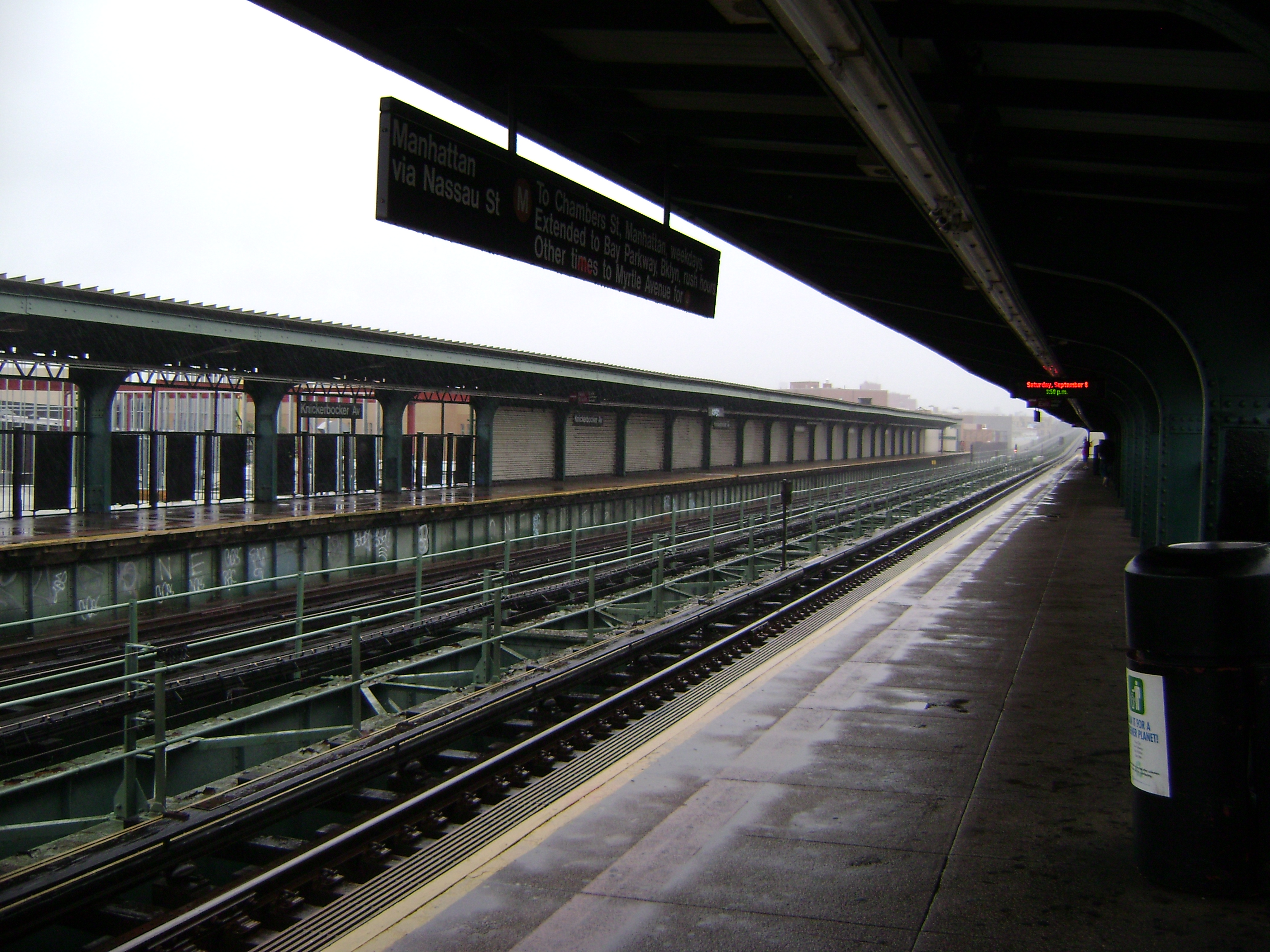 Looking west along the Knickerbocker Avenue subway station platform.